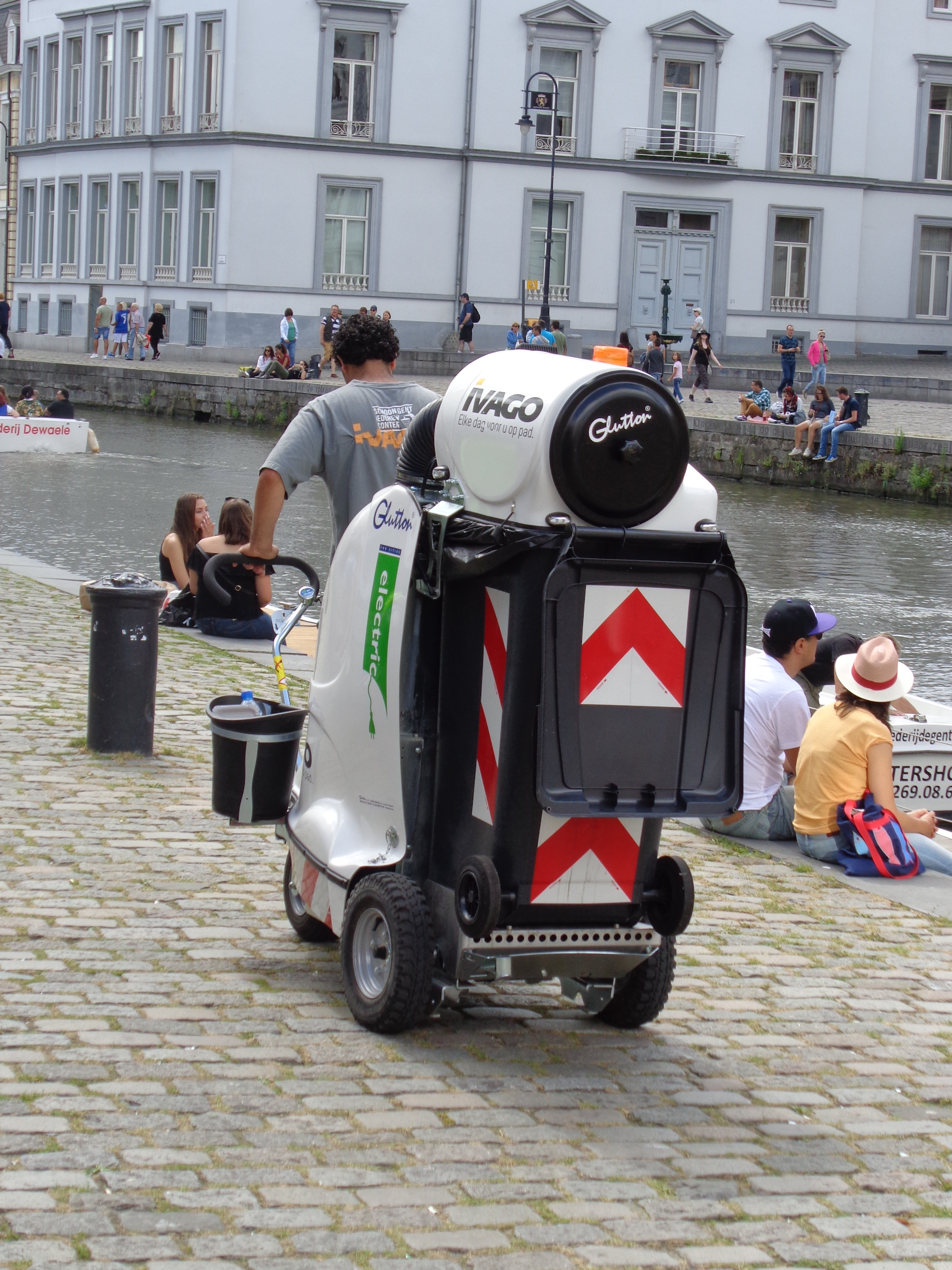 street vacuum cleaner in Ghent, Belgium